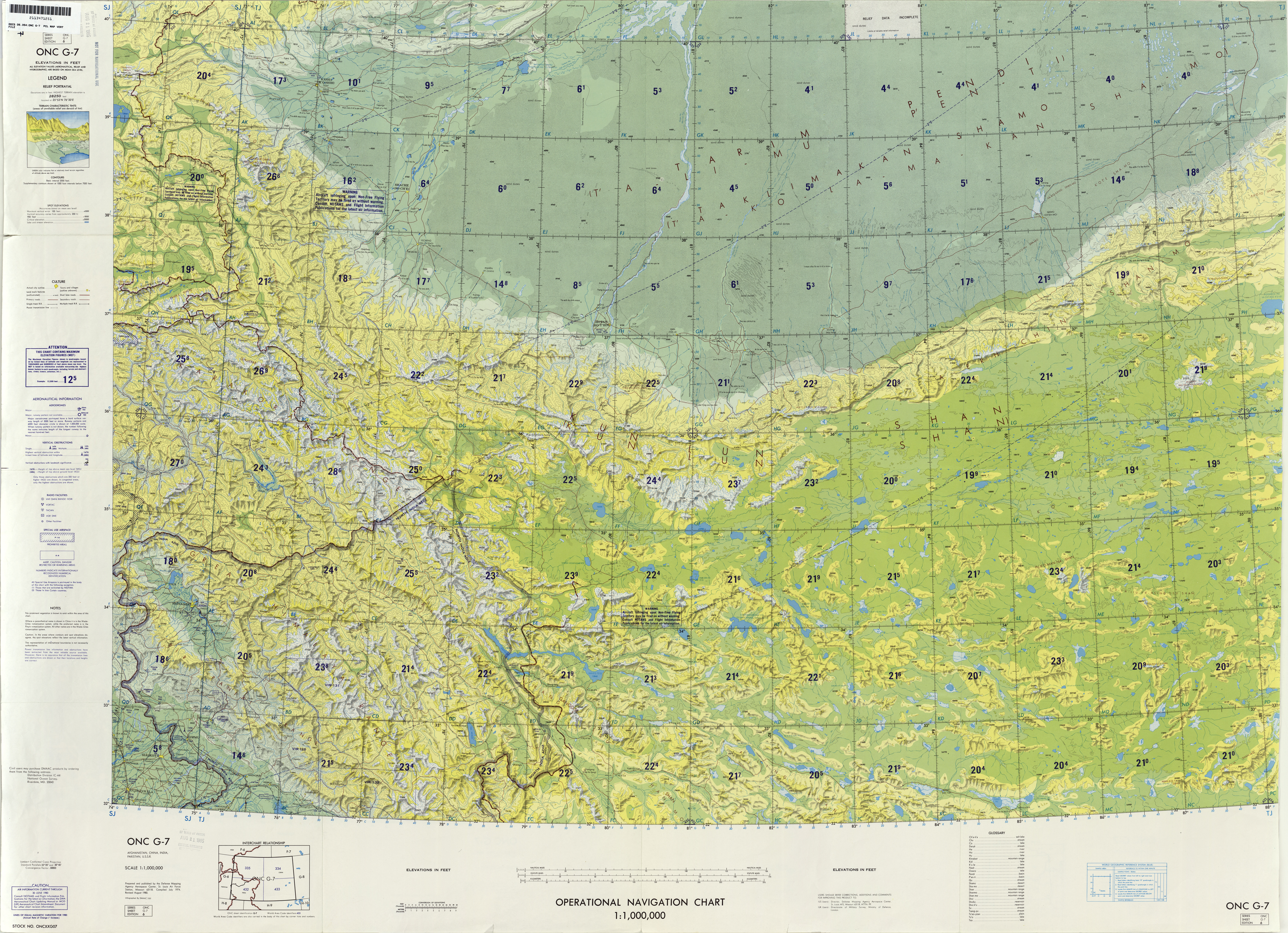 1:1,000,000 scale Operational Navigation Chart, Sheet G-7, 6th edition. Covers Afghanistan, China, India, Pakistan, U.S.S.R. Lambert Conformal Conic Projection.